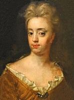 Portrait of Hedvig Sophia of Sweden (1655-1724)